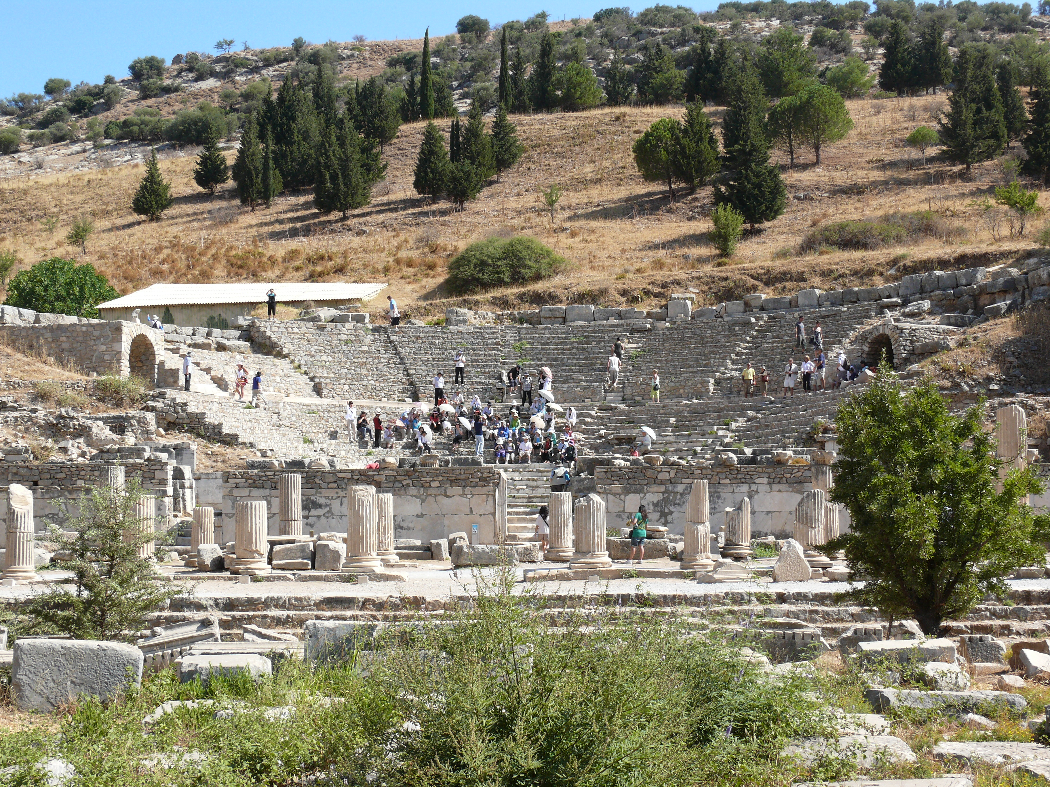 The Odeon at Ephesus, Turkey. Ephesus (Ancient Greek Ἔφεσος; Turkish Efes) was an ancient Greek city on the west coast of Anatolia, in the region known as Ionia. Vedius Antonius and his wife had the Ephesus Odeon (an Odeon is a small roofed theatre) constructed around 150 A.D. It was a small salon for plays and concerts, seating about 1,500 people. There were 22 stairs in the theater. The upper part of the theatre was decorated with red granite pillars in the Corinthian style. The entrances were at both sides of the stage and reached by a few steps.